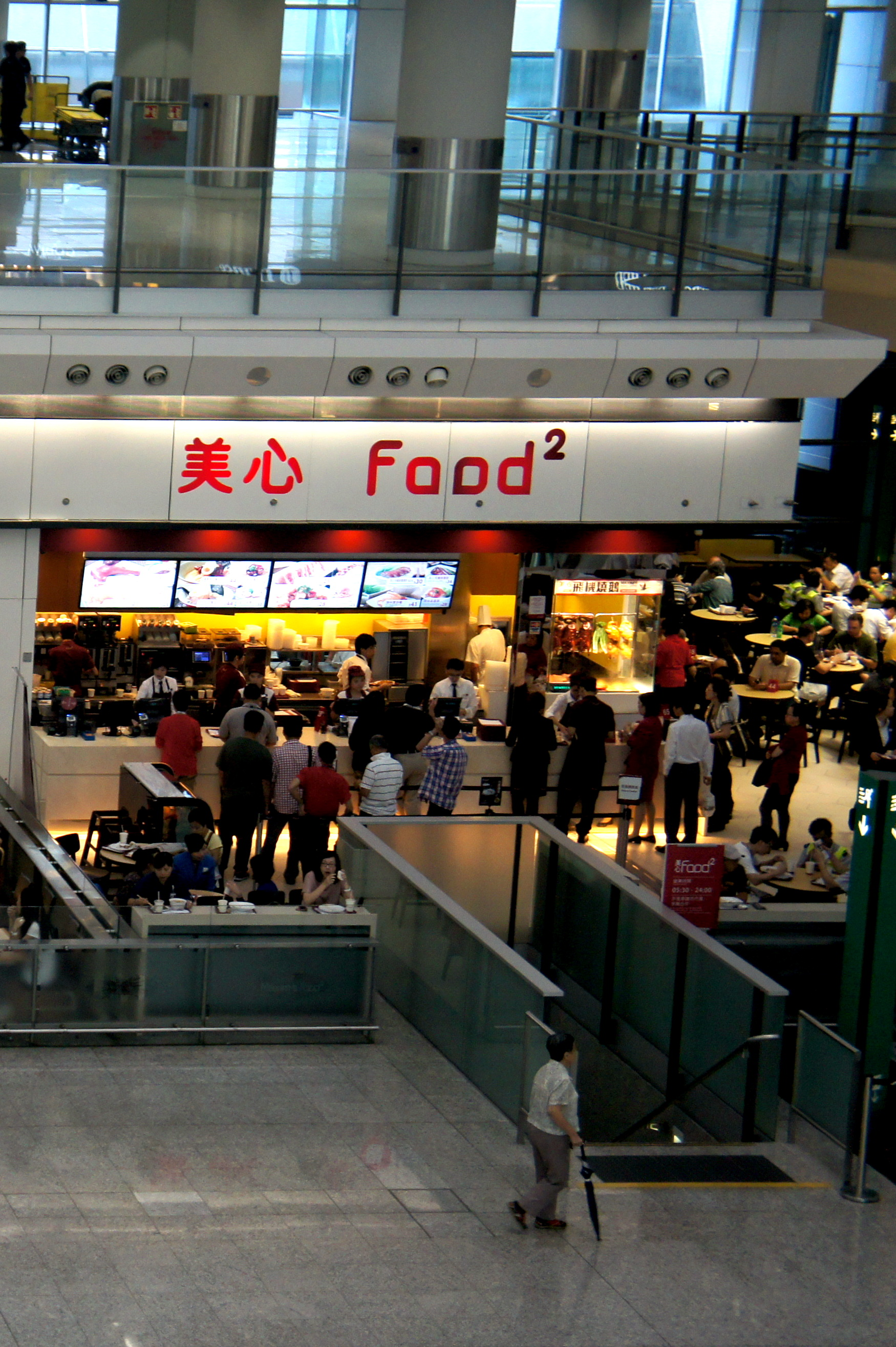 A branch of Maxim's Food2 (Terminal 1 Arrival Lobby) at the Hong Kong International Airport.